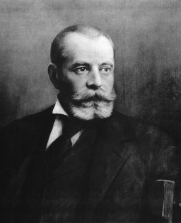 Tivadar Puskás (1844–1893) Hungarian inventor, telephony pioneer.